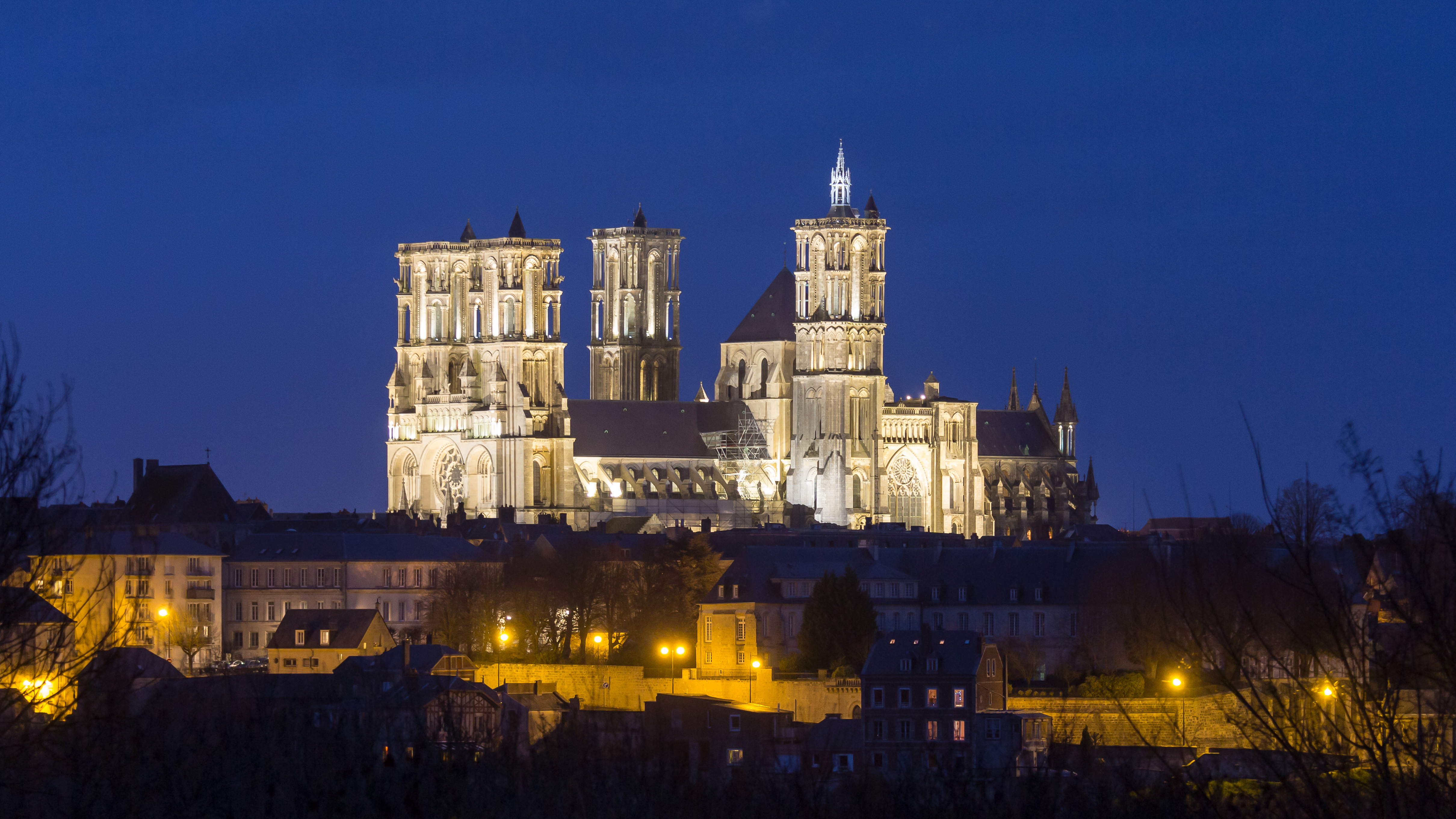 Cathédrale Notre-Dame de Laon at night